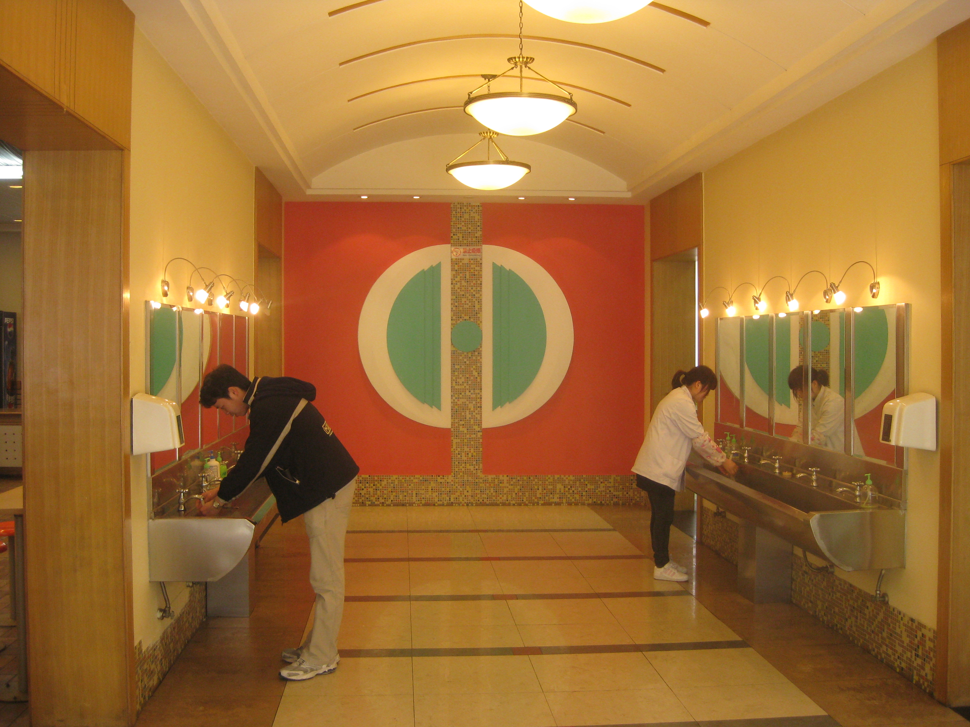 A picture of the SHSID Cafeteria hygiene station